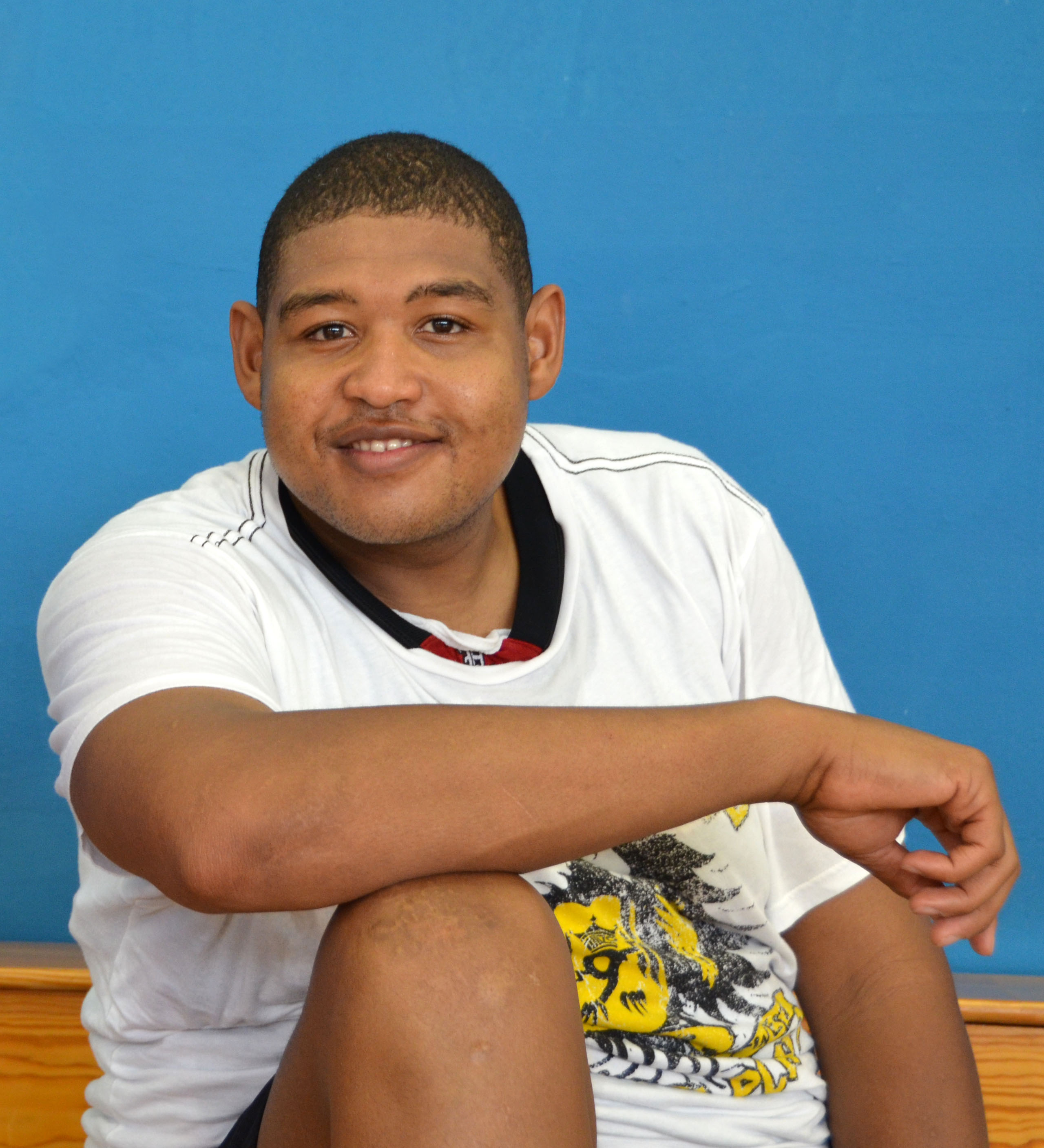 The actor Omar Benson Miller